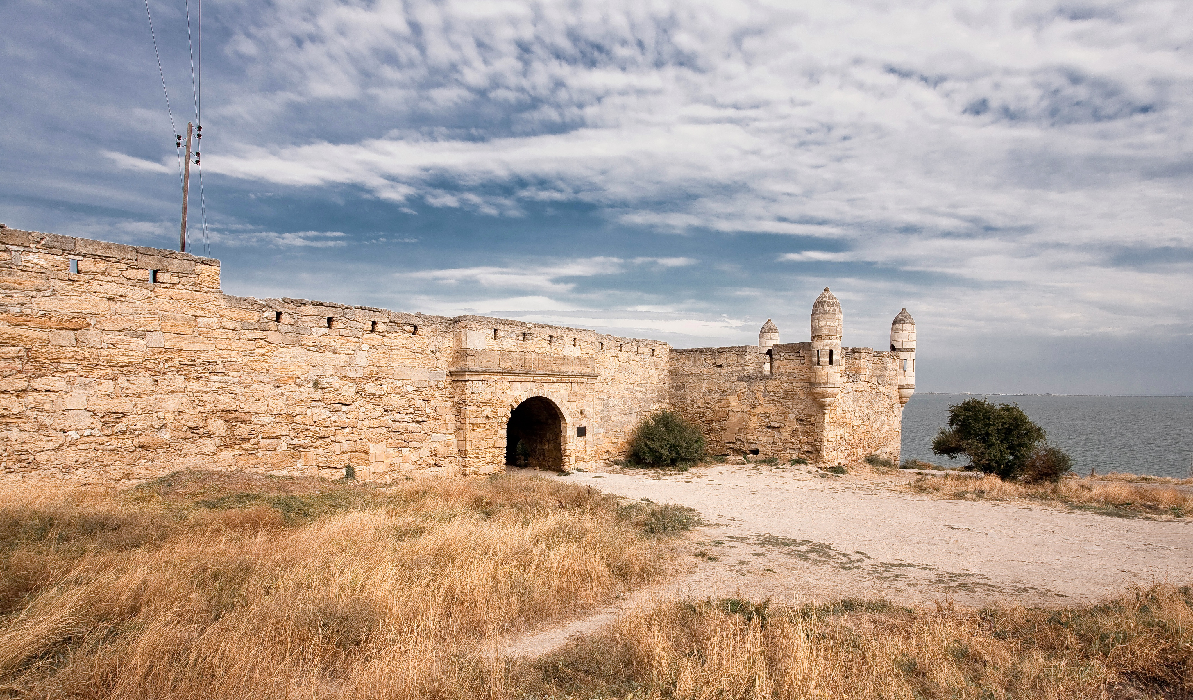 Yeni-Kale Fortress, Kerch